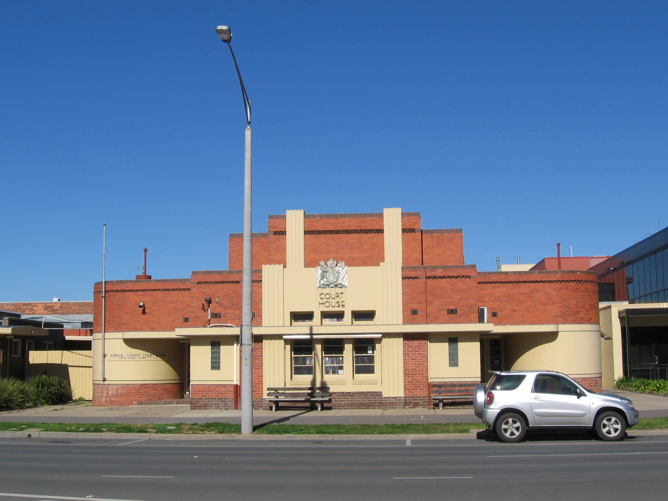 Former Court house in Shepparton, Victoria